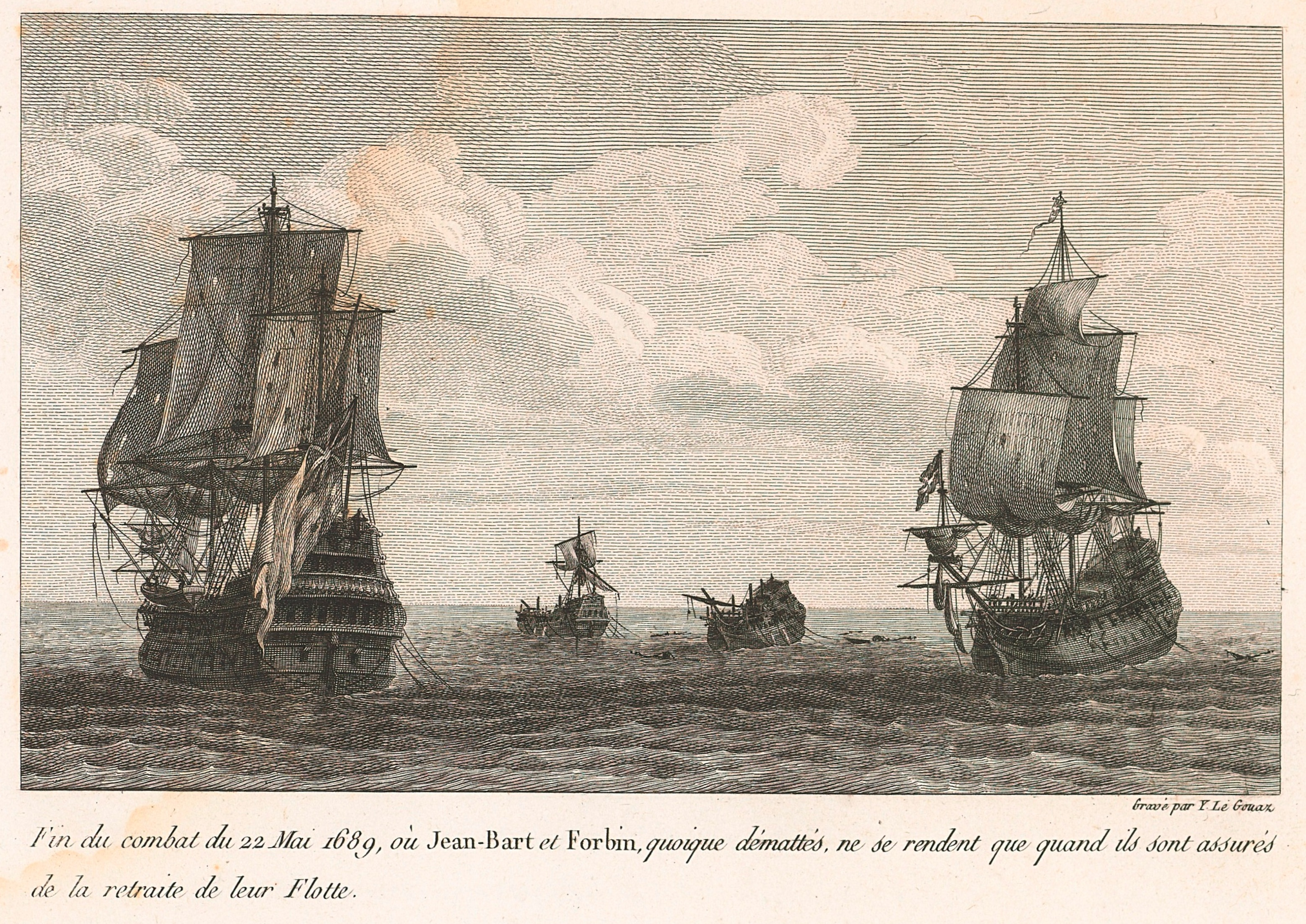 Claude de Forbin and Jean Bart captured in 1689 off the coast of England.